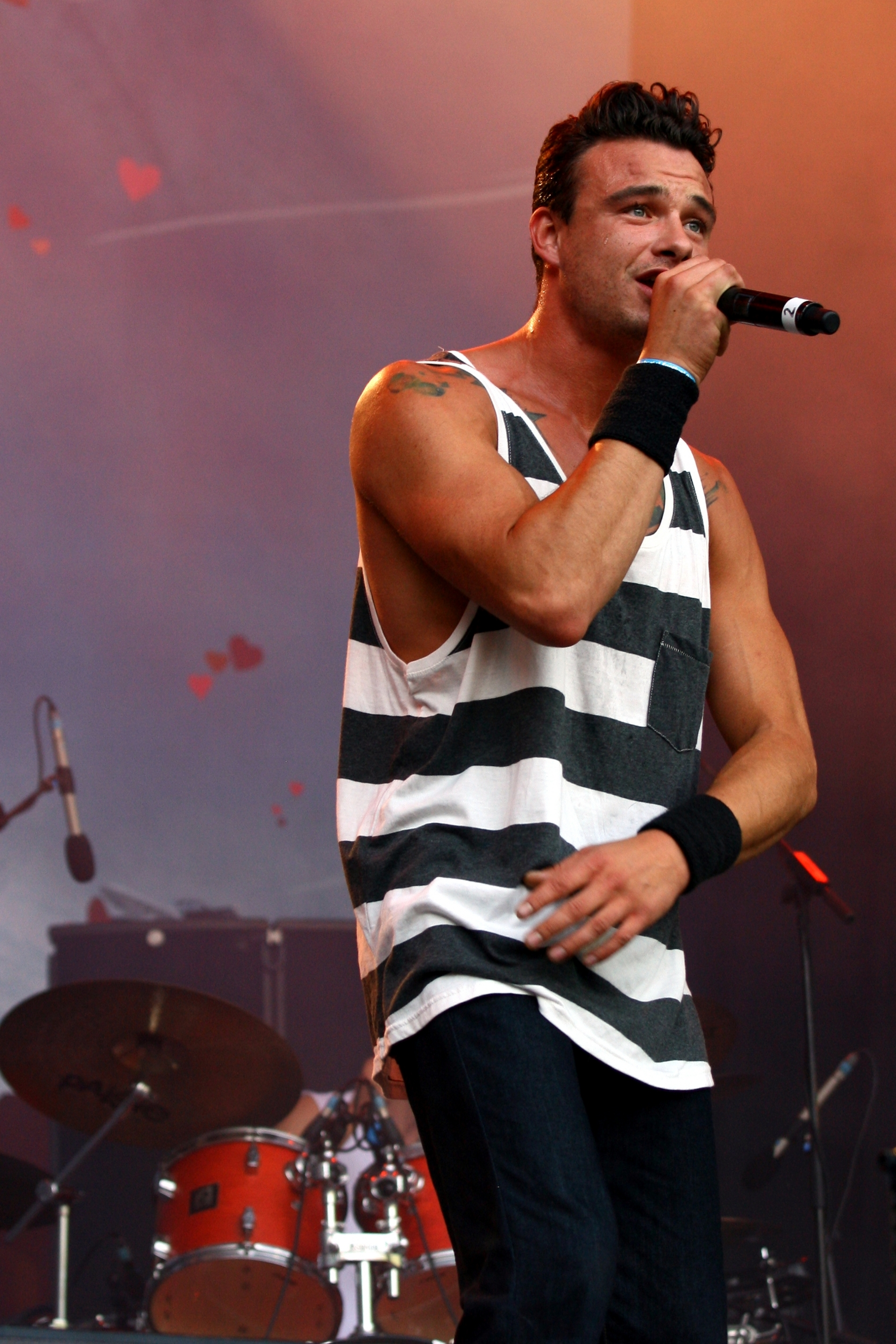 Dag-Alexis Kopplin of SDP, Taubertal Festival 2014. Festivalsommer This photo was created with the support of donations to Wikimedia Deutschland in the context of the CPB project "Festival Summer".